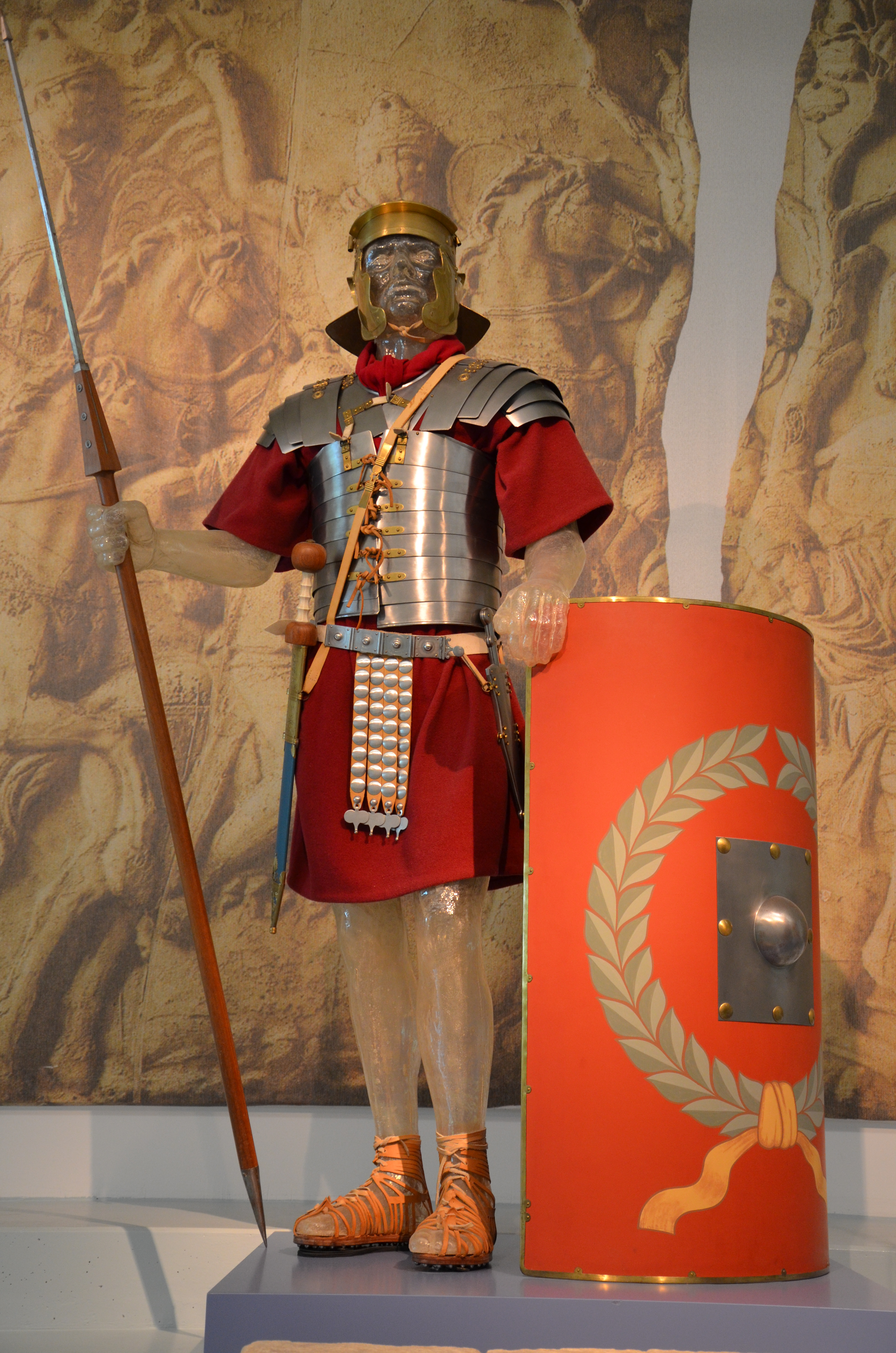 Reconstruction of a Roman legionary, Museum het Valkhof, Nijmegen (Netherlands)